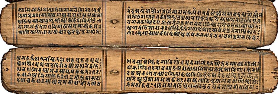 Devimahatmya MS in Sanskrit on palm-leaf, Bihar or Nepal, 11th c., 32 ff., 5x31 cm, 2 columns, (3x27 cm), 5 lines in an early Bhujimol script, borders marked with double lines with orange pigmentation between lines, 1 miniature in text. Binding: Nepal, 11th c., carved wooden covers, decorated with 10 miniatures, poti with hole for the binding cord. Provenance: 1. Monastery in Nepal (ca. 11th c.-); 2. Sam Fogg cat. 17(1996):40.